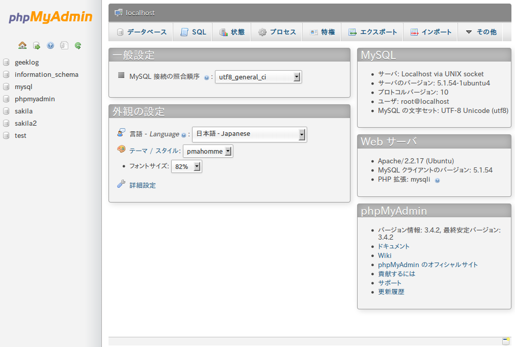 Screenshot of the main page of phpMyAdmin version 3.4.2